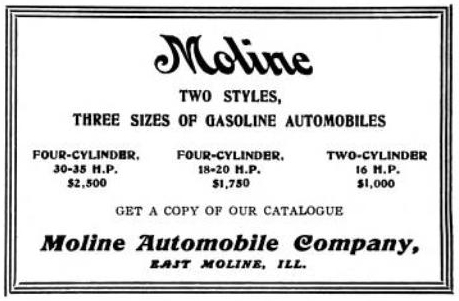 Moline Automobile Company - Moline, Illinois - 1906